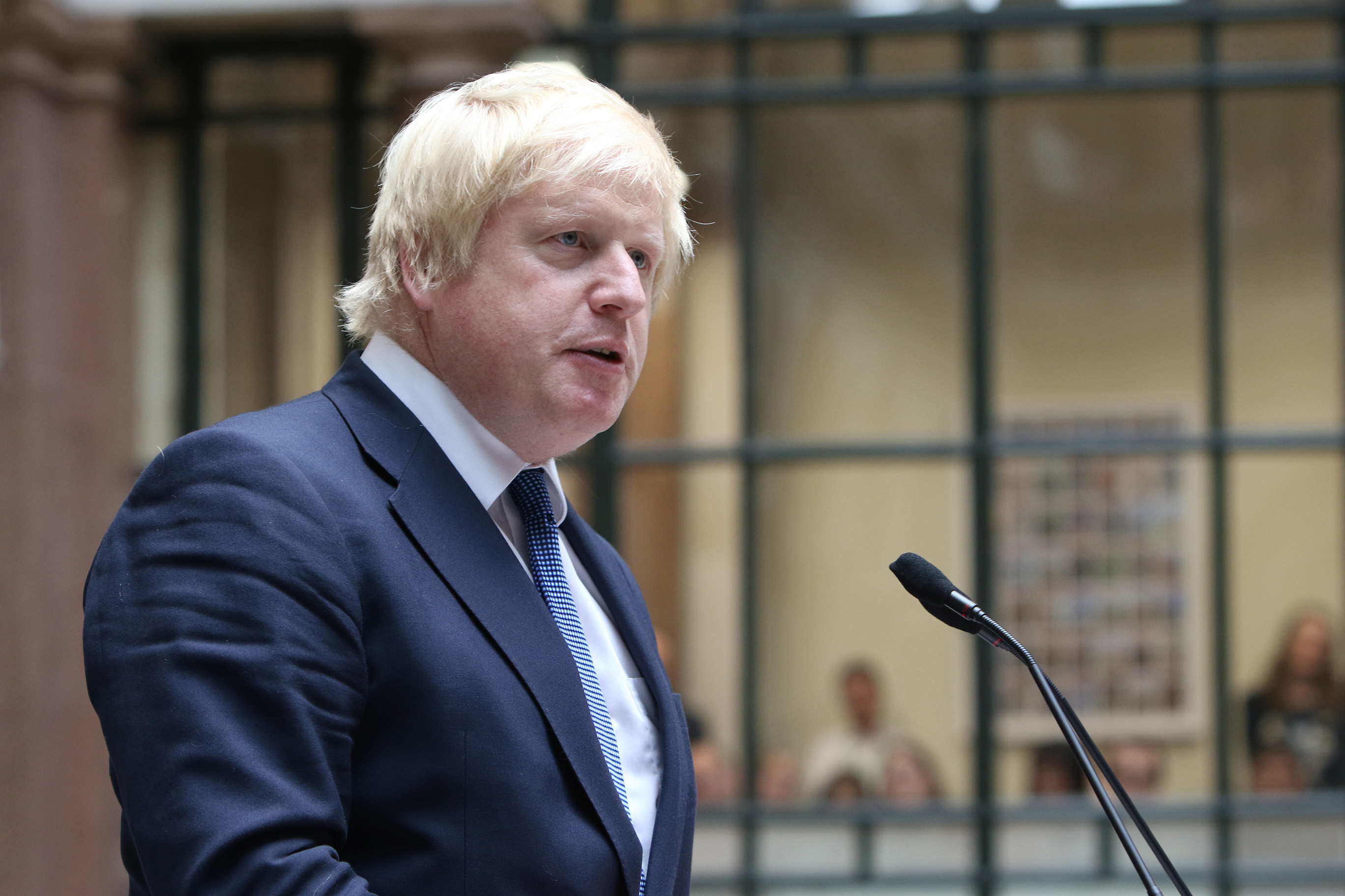 Foreign Secretary Boris Johnson, speaking to FCO staff in London, 14 July 2016.